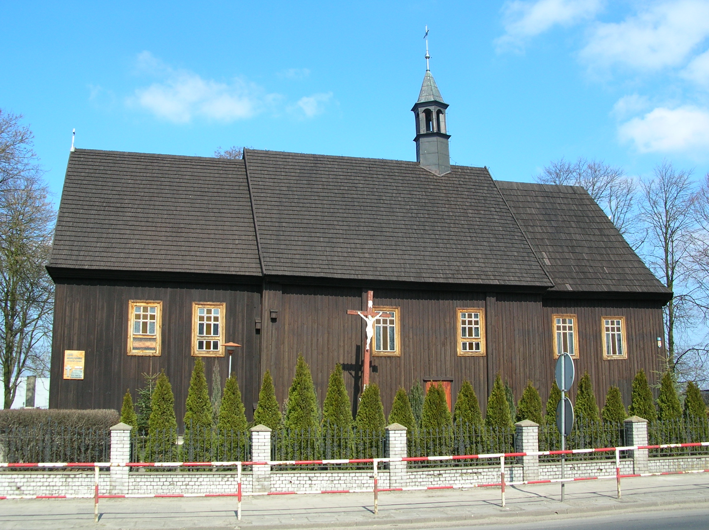 Wooden church in Biała